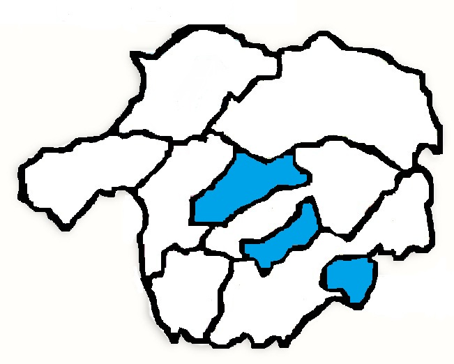 Seishin New town Nishi-ku Kobecity Hyogopref range